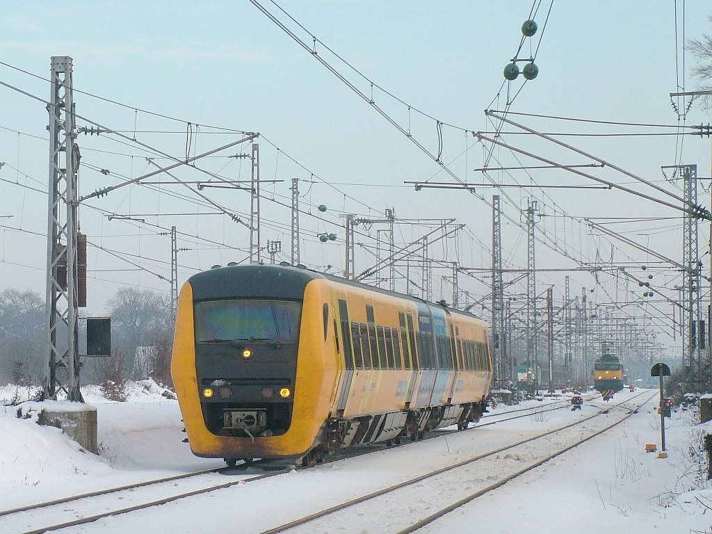 The "Grensland Express" ("borderland express") leaving from Bad Bentheim station